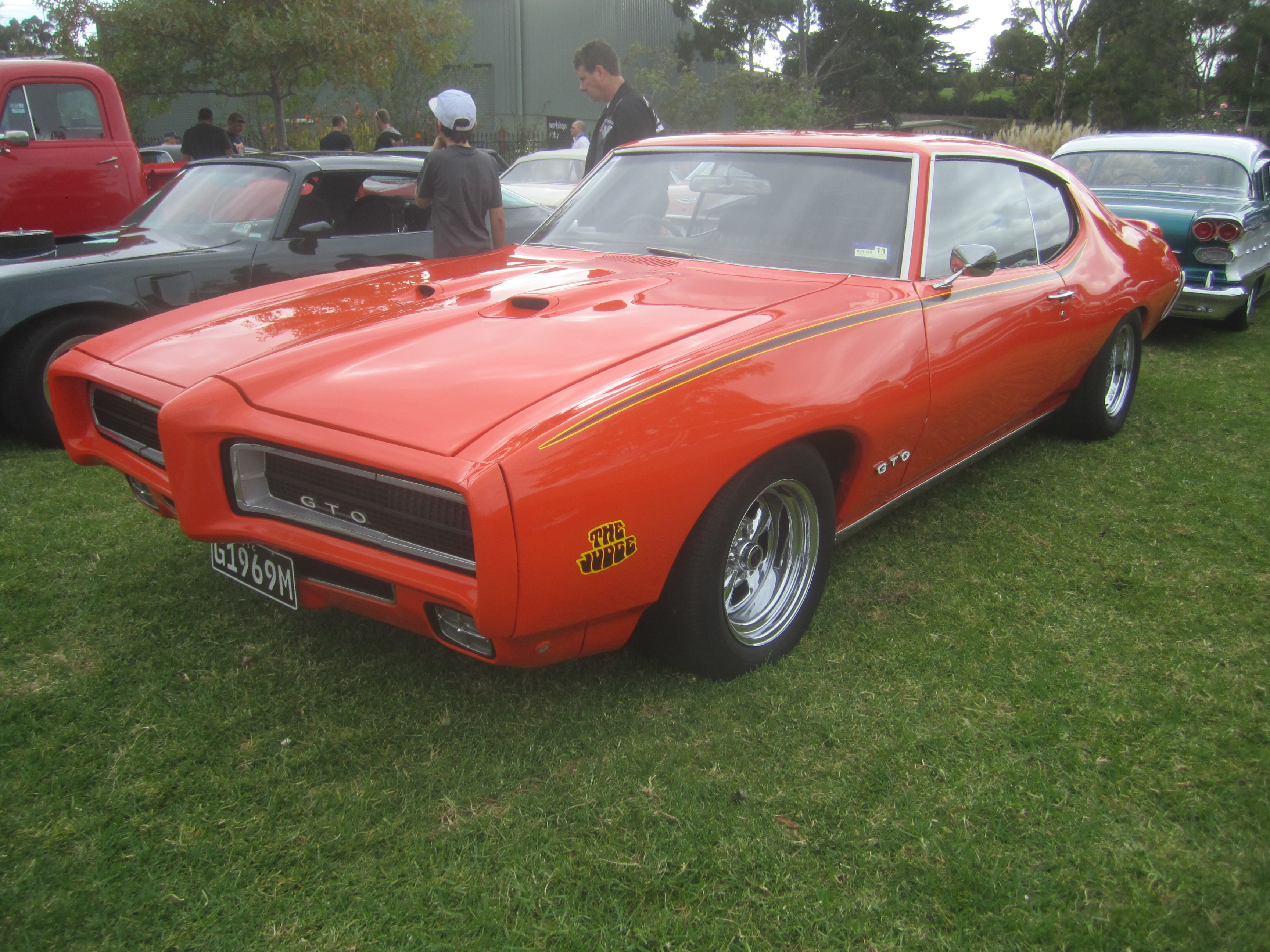 A muscle car produced from 1964 to 1974 Through 3 generations, this the 2nd generation, introduced in 1968 was shorter and narrower, and featured a more fastback roof line and hidden headlights. In 1969 the vent windows went and grille and taillights were revised and the performance 'Judge' option was now available. 3 Engine options; base 350hp 400cu in, the 1968 360hp Ram Air II was upgraded to 366hp Ram Air III in 1969 and also available was the 370hp Ram Air IV